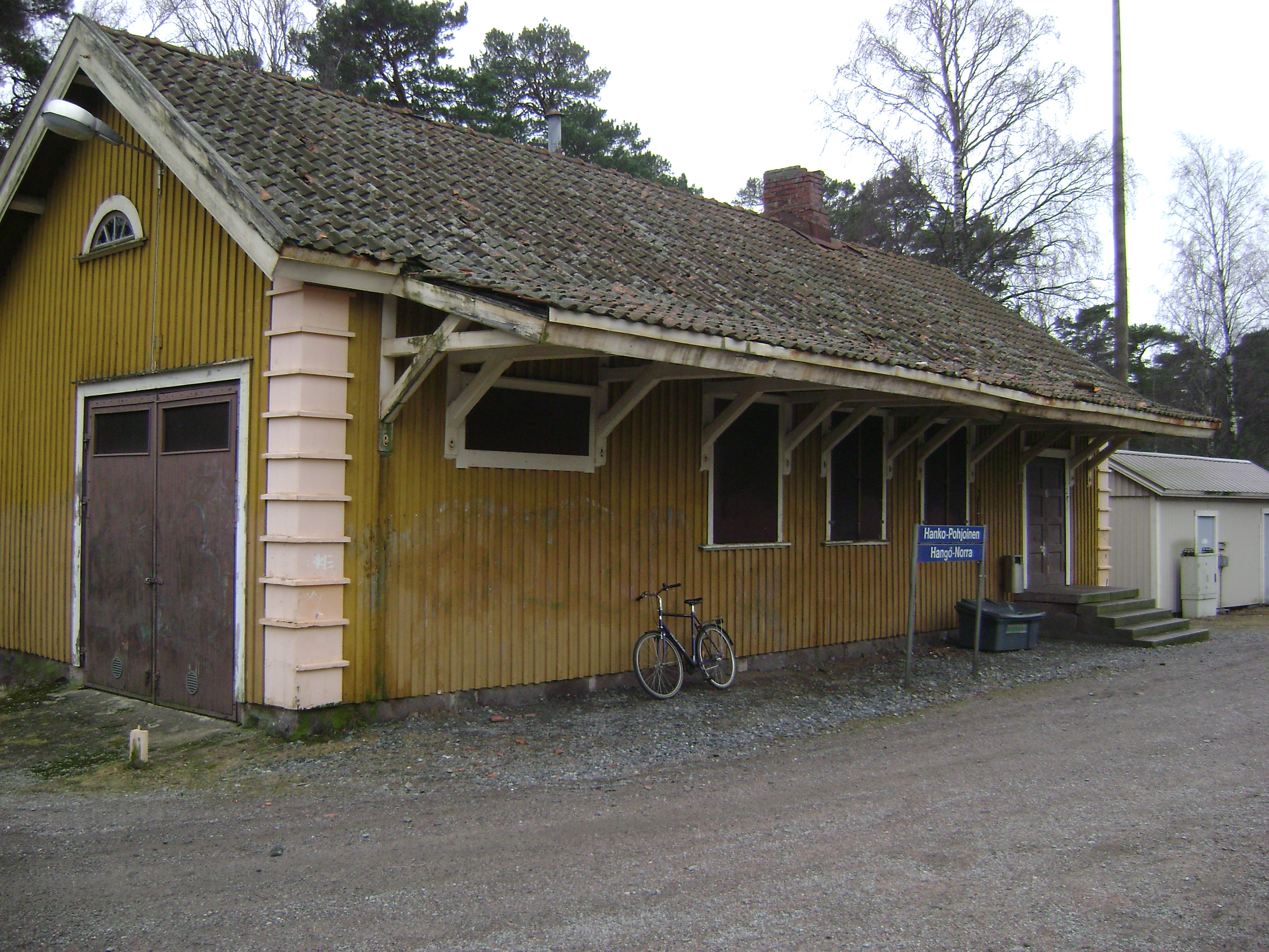 Hanko-Pohjoinen (Hanko Northern) railway halt building in Hanko, Finland